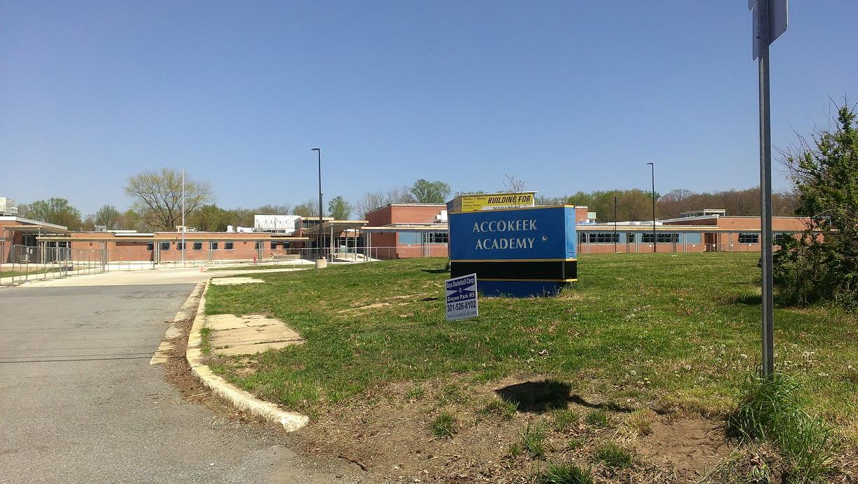 The front entrance to the only public school in Accokeek, Accokeek Academy.